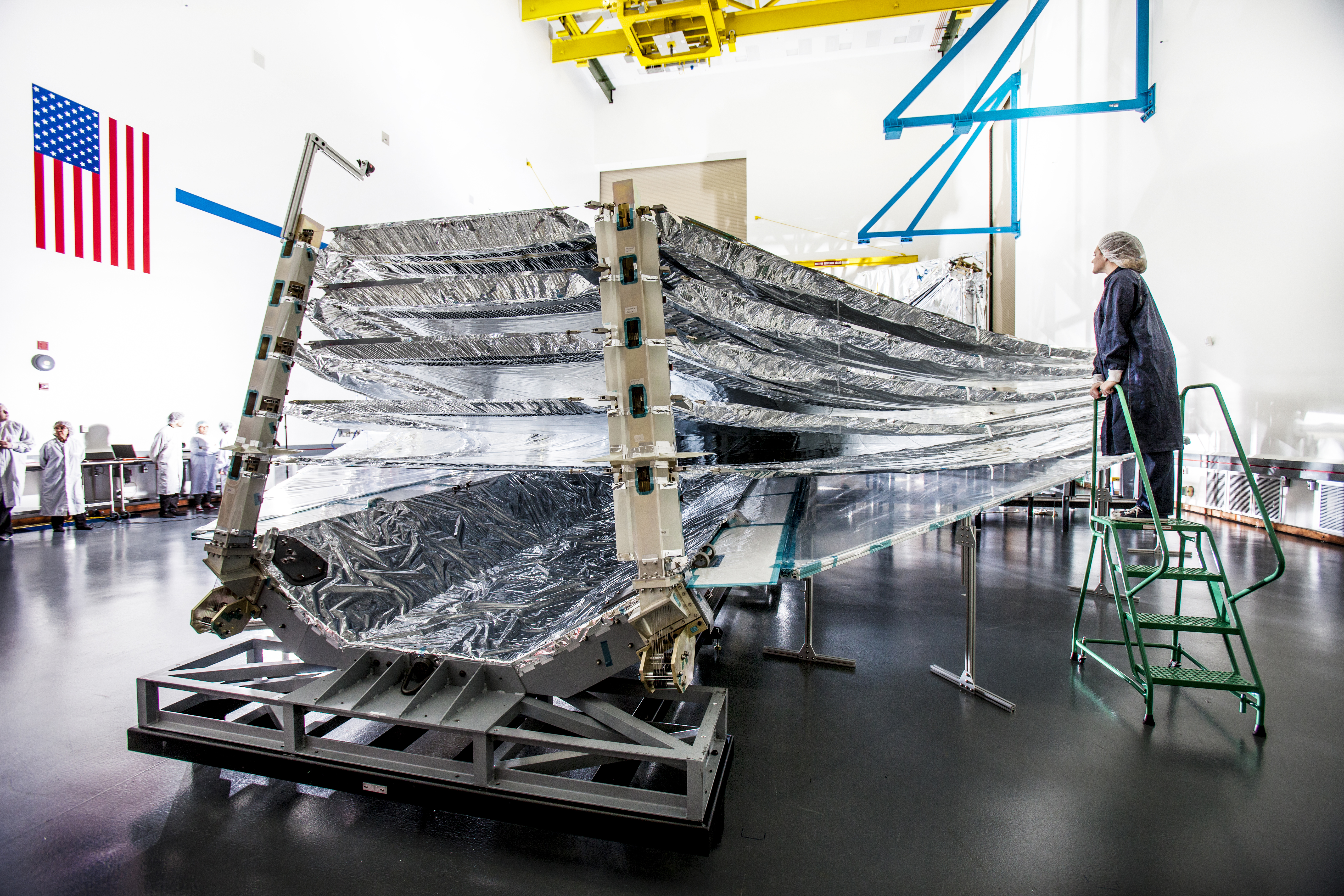 A major test of the sunshield for NASA’s James Webb Space Telescope was conducted recently by Northrop Grumman in Redondo Beach, California. For the first time, the five sunshield test layers were unfolded and separated; unveiling important insights for the engineers and technicians as to how the deployment will take place when the telescope launches into space. “These tests are critical and allow us to see how our modeling works and learn about any modifications we may need to make in our design as we move into sunshield flight production,” said Jim Flynn, Webb sunshield manager. The three-day test took place in July, taking seven engineers and six technicians about 20 hours to complete. On orbit, the sunshield will take several days to unfold. Read more here: Credit: Northrop Grumman/Alex Evers NASA image use policy. NASA Goddard Space Flight Center enables NASA’s mission through four scientific endeavors: Earth Science, Heliophysics, Solar System Exploration, and Astrophysics. Goddard plays a leading role in NASA’s accomplishments by contributing compelling scientific knowledge to advance the Agency’s mission. Follow us on Twitter Like us on Facebook Find us on Instagram